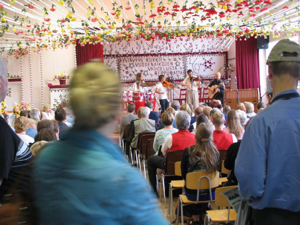 Soittosali at Kaustinen Folk Music Festival in Kaustinen, Finland